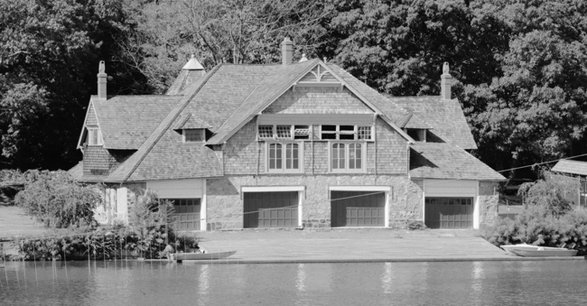 University Barge Club, #7-8 Boathouse Row, Kelly Drive, Philadelphia, PA.